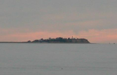 View of Saquish Neck at Sunrise, taken from Plymouth Beach, Massachusetts. Both Saquish Neck and Plymouth Beach are villages of Plymouth.